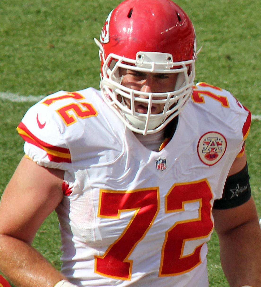 Eric Fisher, a player on the National Football League.